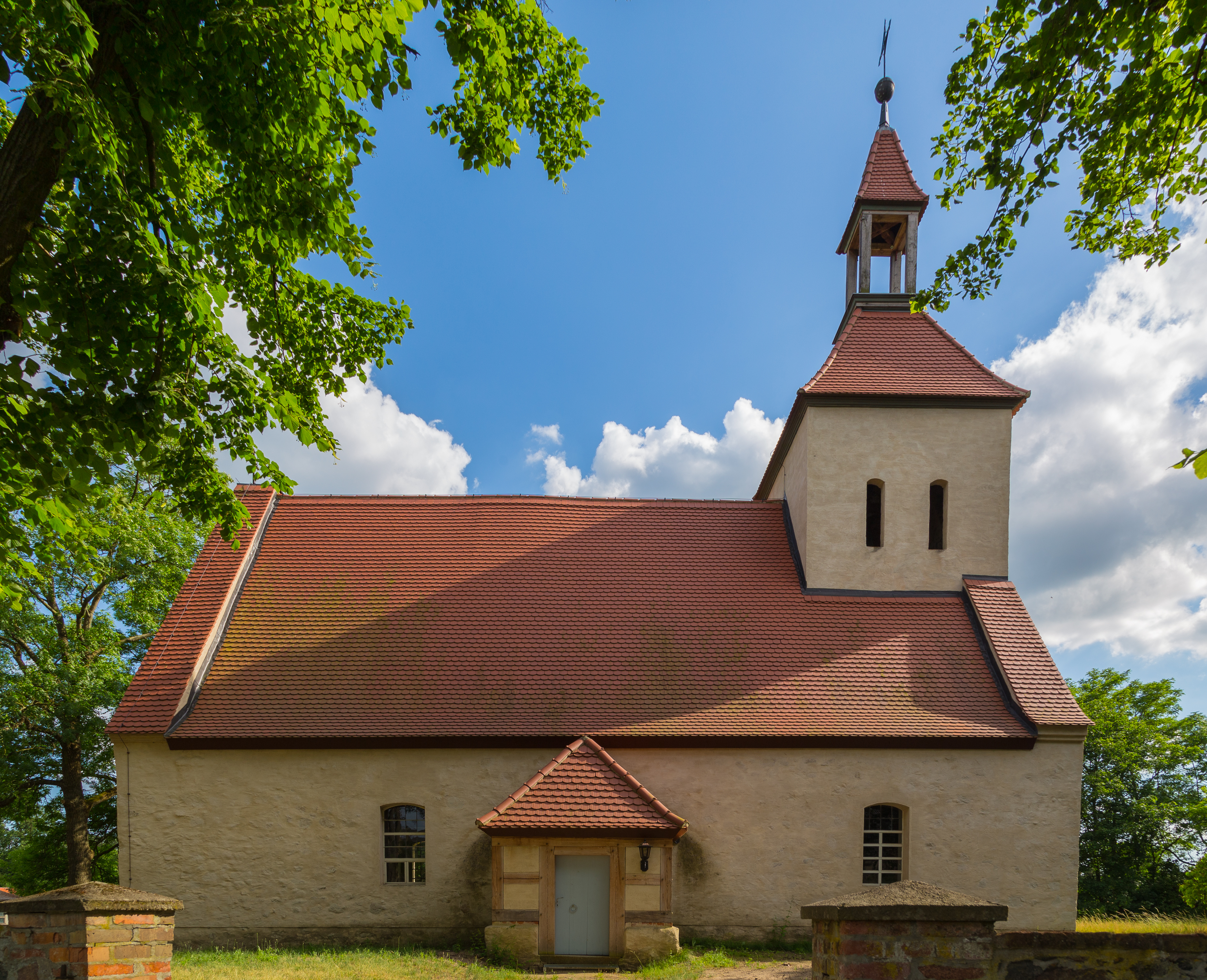 Listed Protestant Village Church (Dorfkirche) in Mittweide, part of the municipality Tauche, Landkreis Oder-Spree, Brandenburg, Germany. The plastered fieldstone church is dated to 1401/1450. The steeple was erected after 1830. The aisleless church has remains of a frescoed mural, also dated to 1401/1450, which shows the Last Judgment.